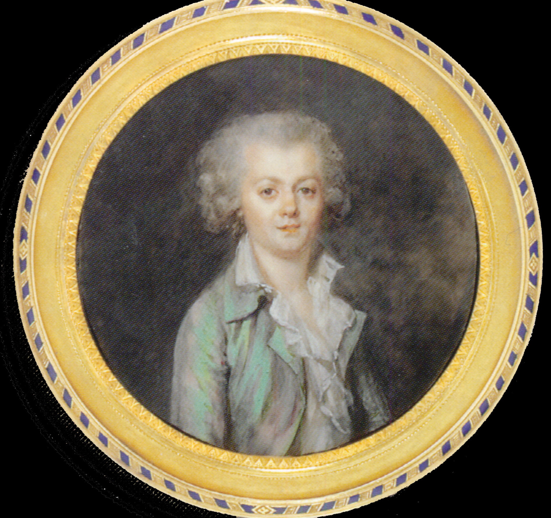 Portrait of a Gentleman